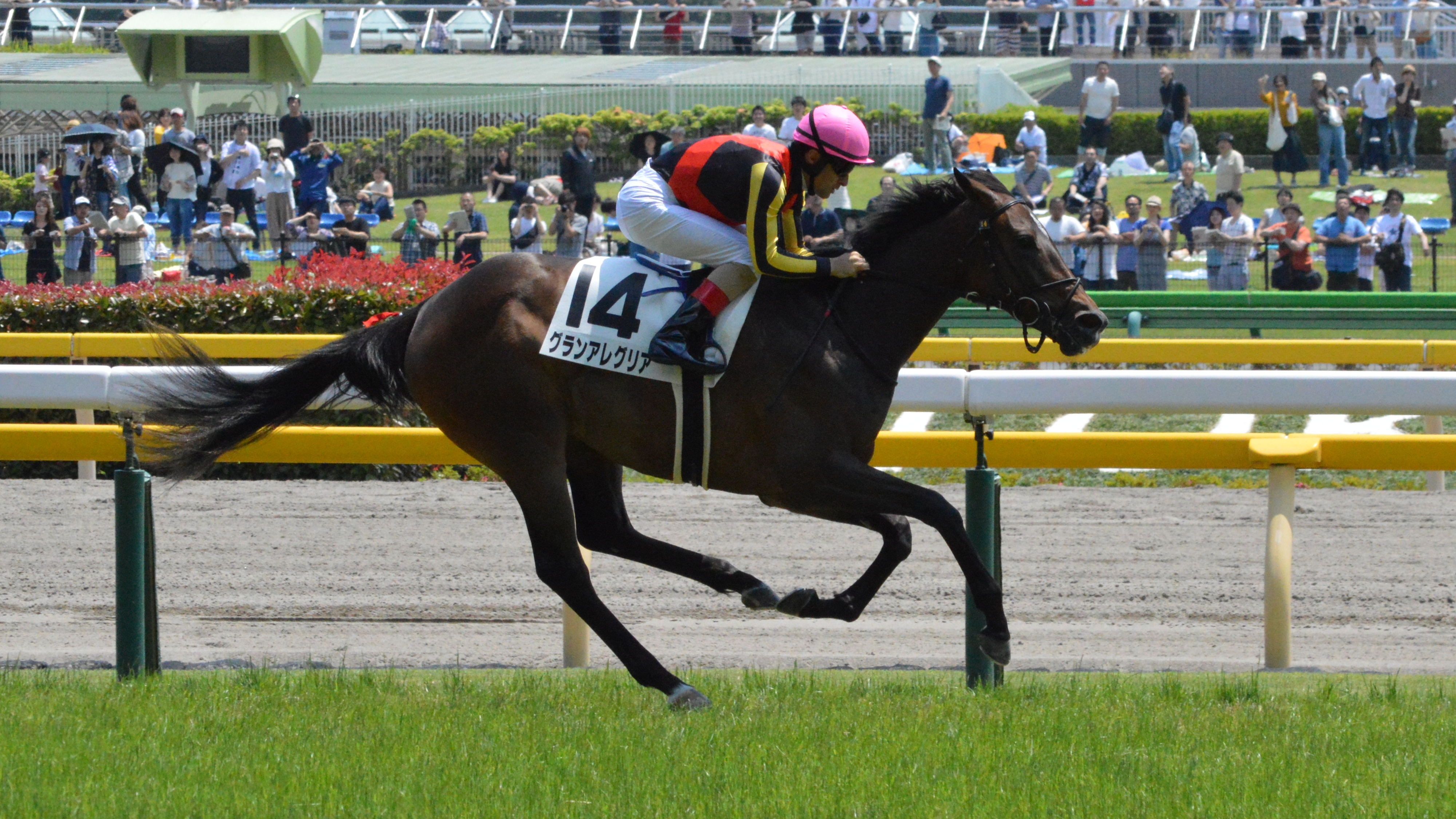 Japanese race horse Gran Alegria at Tokyo racecourse. Tokyo (JPN) 3 Jun 2018Maiden (Turf) 1m Firm RankHorse NameOddsAgeWgtJockeyTrainer1stGran Alegria (JPN)4/5FC28-7Christophe Patrice LemaireKazuo Fujisawa2ndDanon Fantasy (JPN)19/10C28-7Yuga KawadaMitsumasa NakauchidaOthers are omitted. (15 horses entered in a race.)